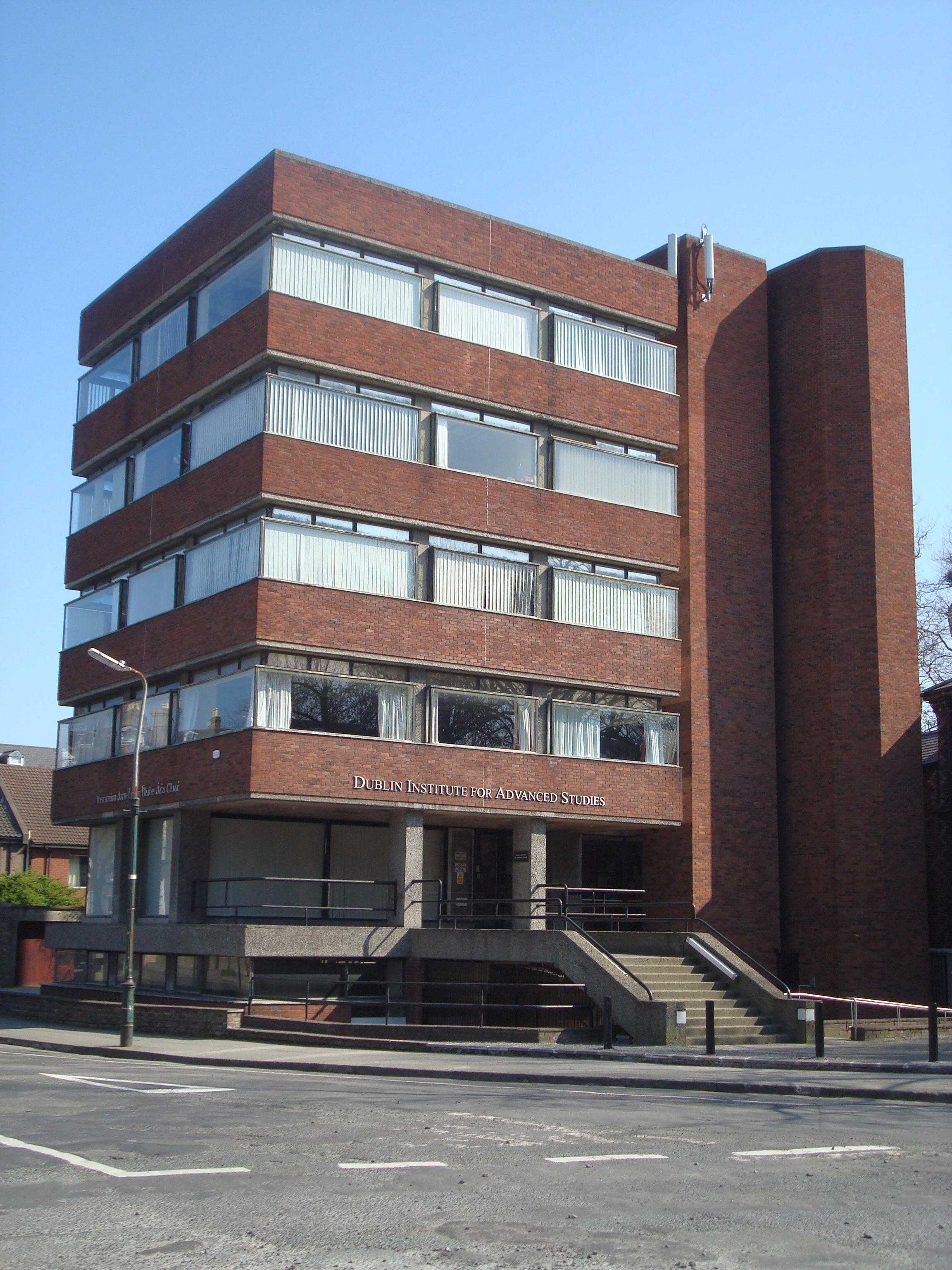 Dublin Institute for Advanced Studies, School of Theoretical Physics, Dublin.